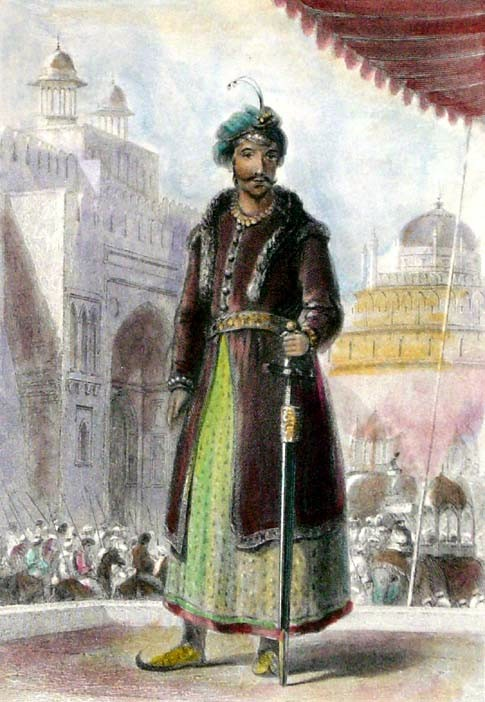 "Tippoo Saib," a steel engraving by William Daniell, 1830's (with modern hand coloring) Source: ebay, Nov. 2006